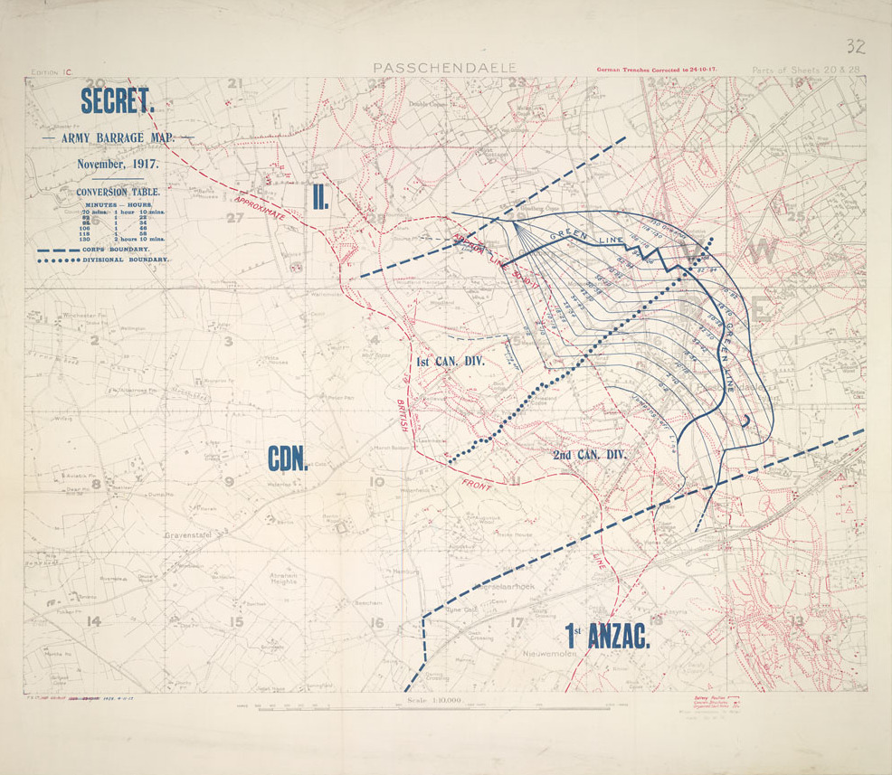 1: 10000 scale Passchendaele army barrage map. "German trenches corrected to 24-10-17" German trenches overprinted in red on grey base map. Creeping barrage pattern overprinted in blue.